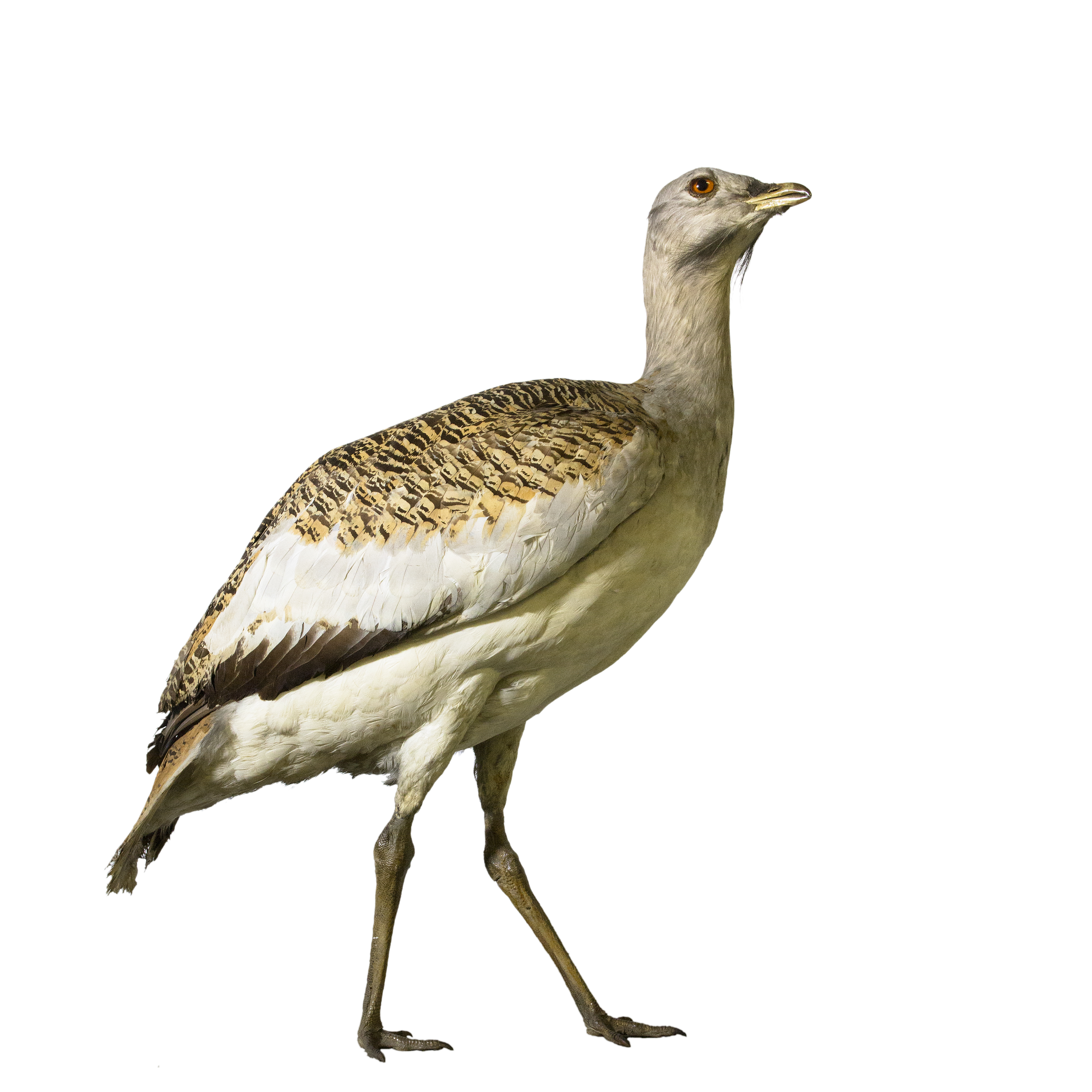 taxidermied specimen, great bustard, size : 65 x 30 x 80 cm